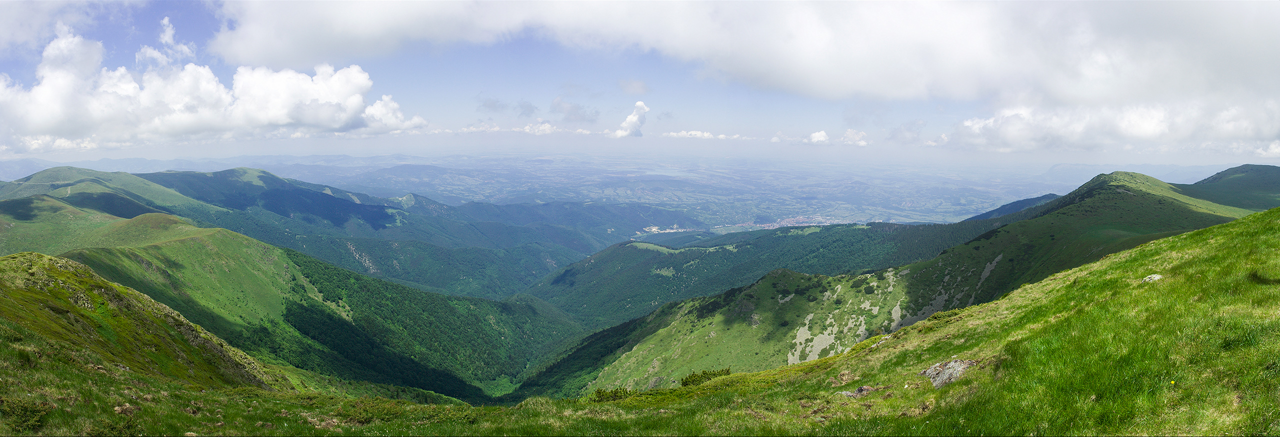 Kom, pano from the top to the north, Stara planina, Bulgaria.